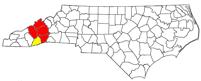 Locator map of the Asheville-Brevard Combined Statistical Area in the western part of the U.S. state of North Carolina. The two components of the CSA are colored separately: Asheville Metropolitan Statistical Area: red Brevard Micropolitan Statistical Area: yellow